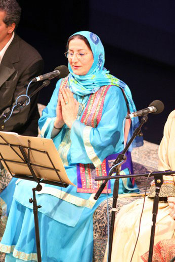 Pari Maleki